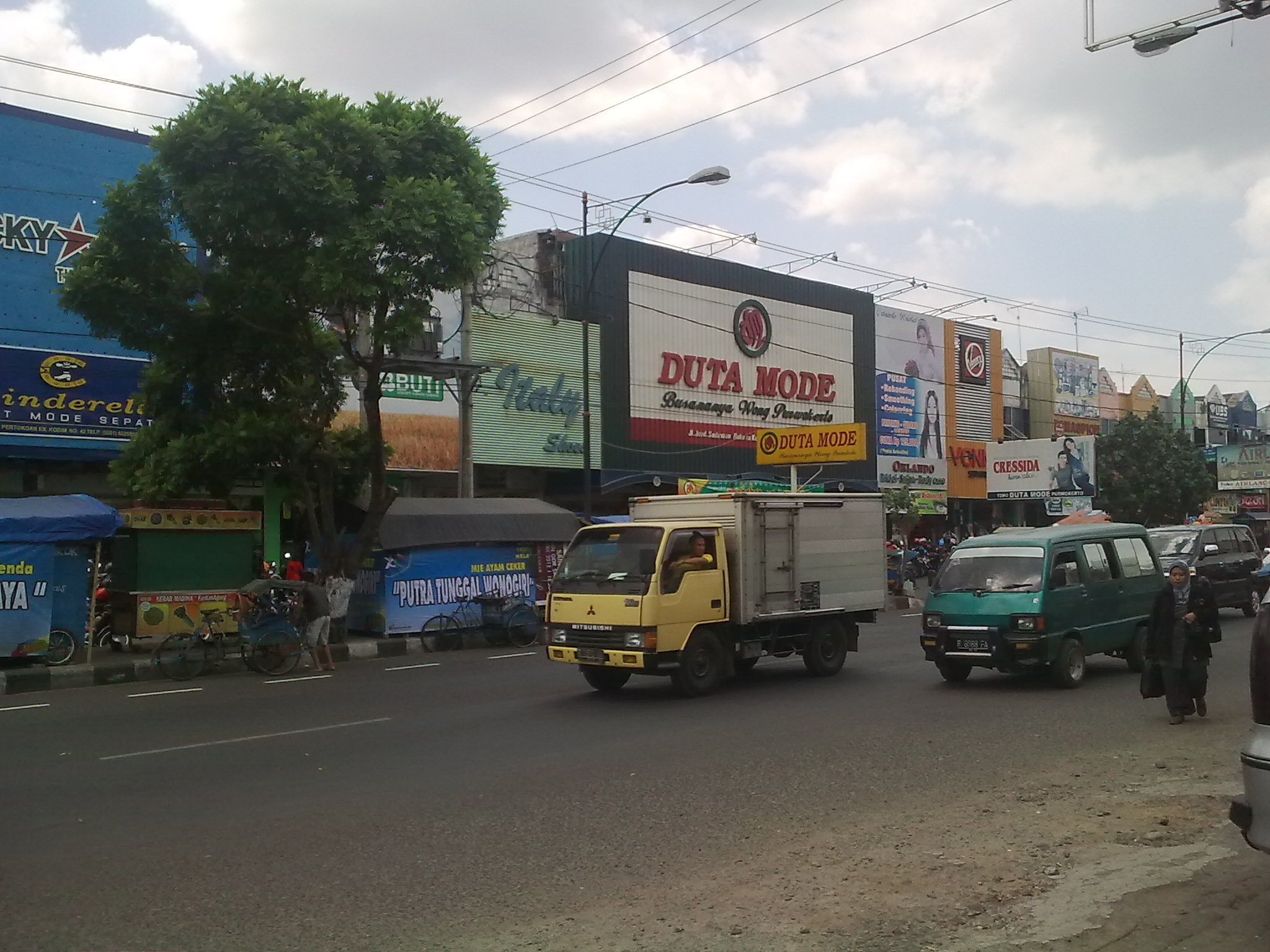 A row of shops in Purwokerto. Shown here is the Ruko Kodim. Filled with fashion stores, department stores, VCD stores, salons, and many more.